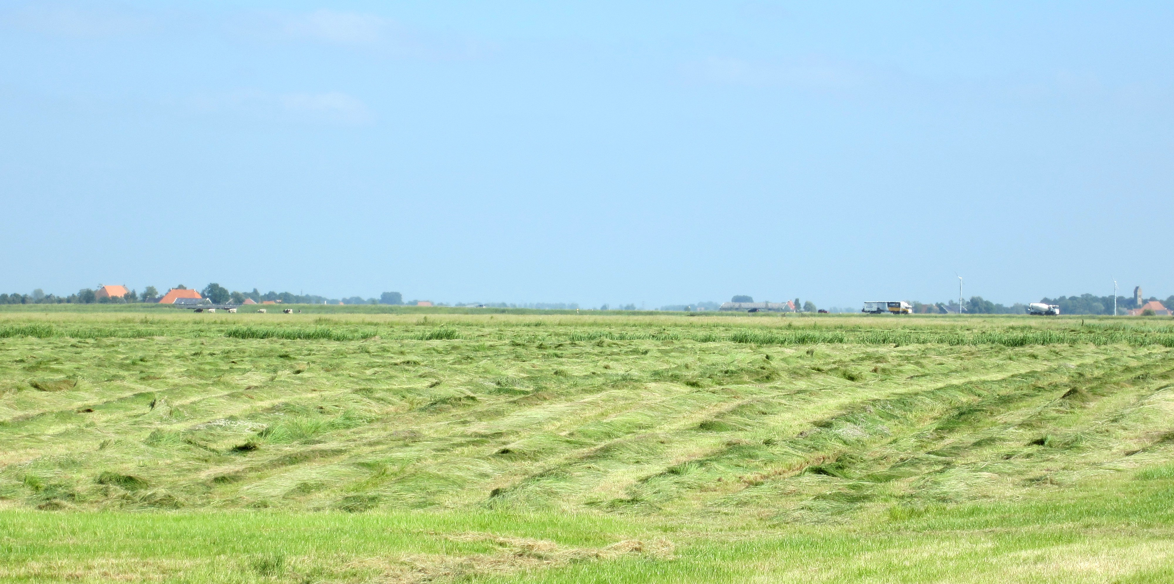 A pasture with mown grass near Húns, Friesland, the Netherlands.